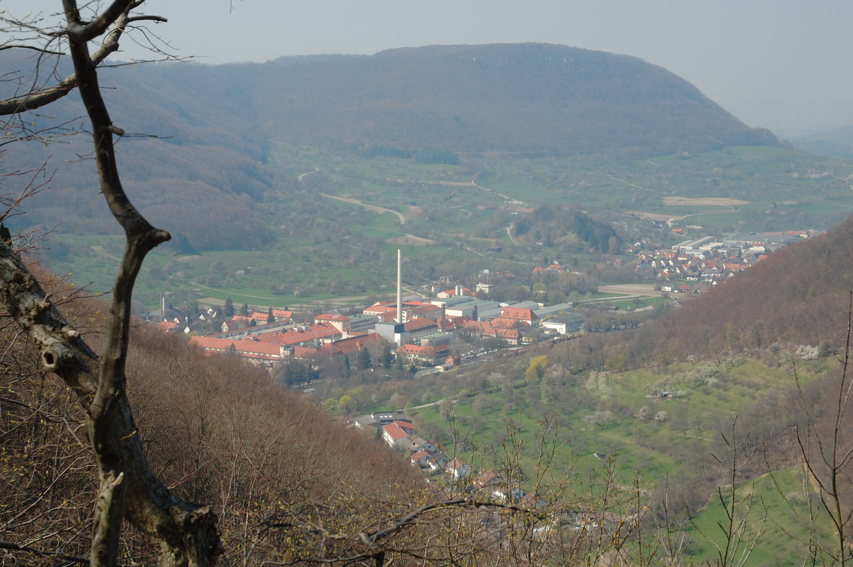 View of Lenningen from Wielandstein, Germany.